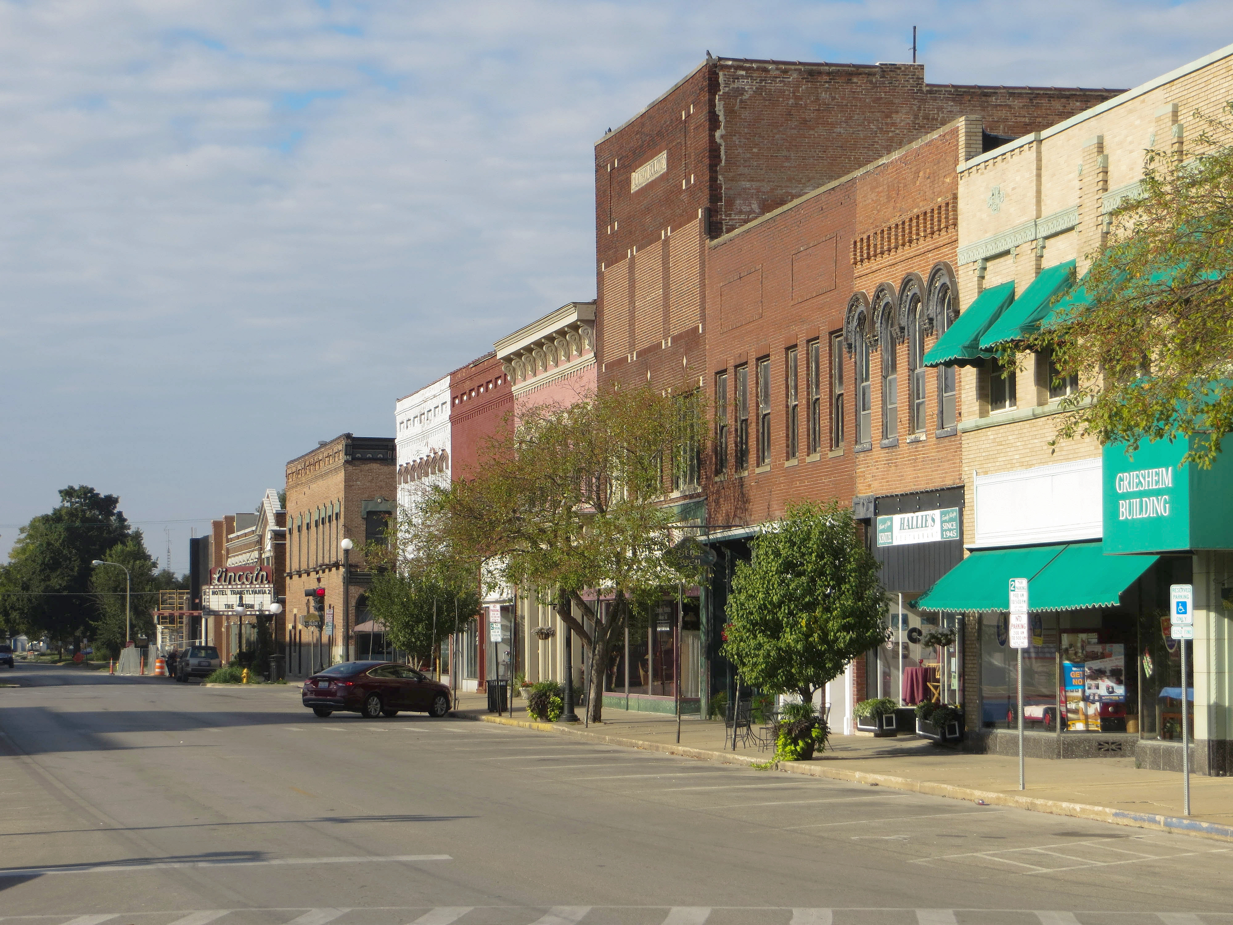 Kickapoo Street in Lincoln, Illinois.